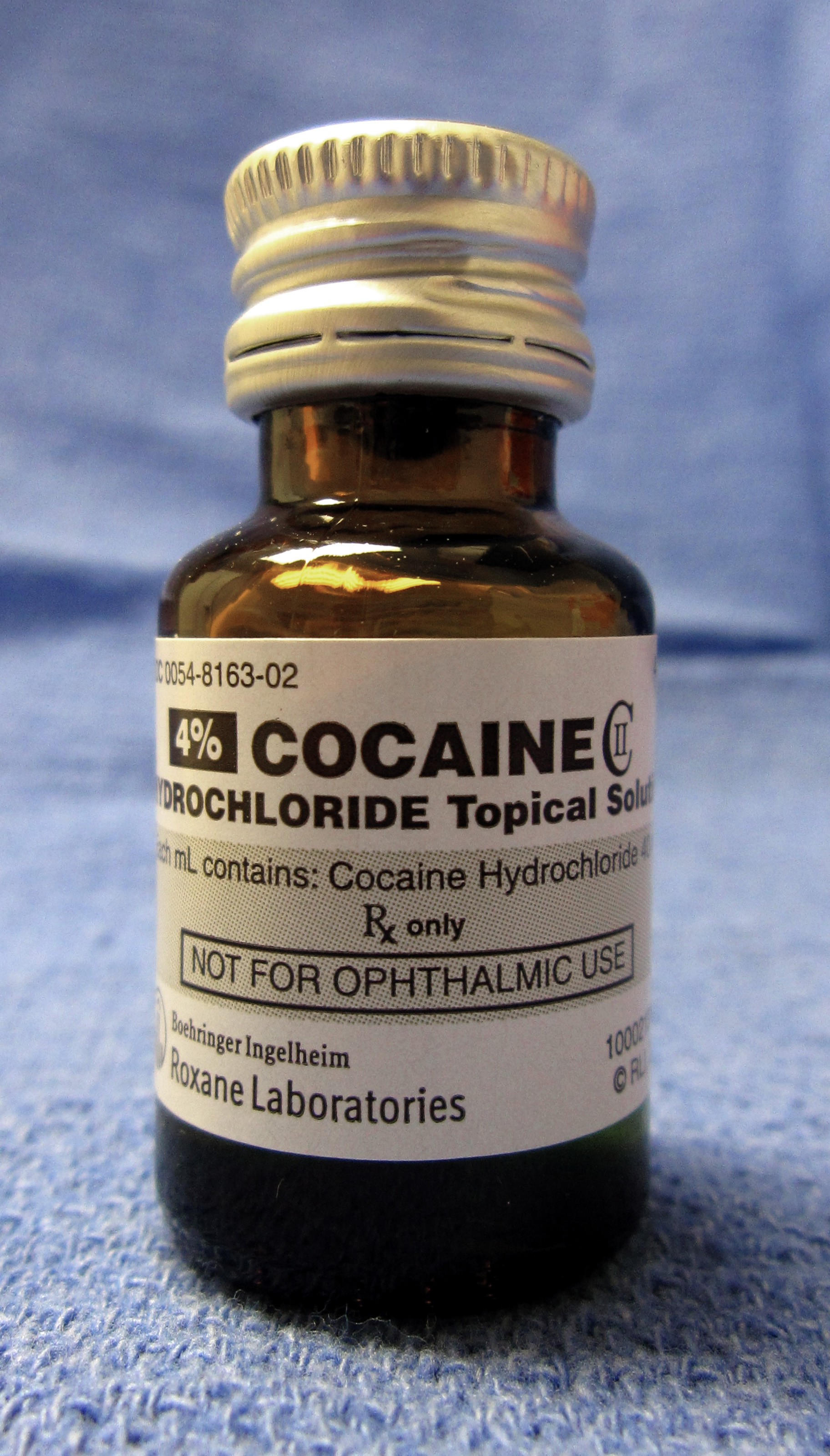 Cocaine hydrochloride for medicinal use. This is a CII controlled substance in the United States.